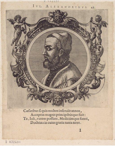 Giulio Alessandrini (1506-1590), Bibliothèque Nationale de France, Gallica